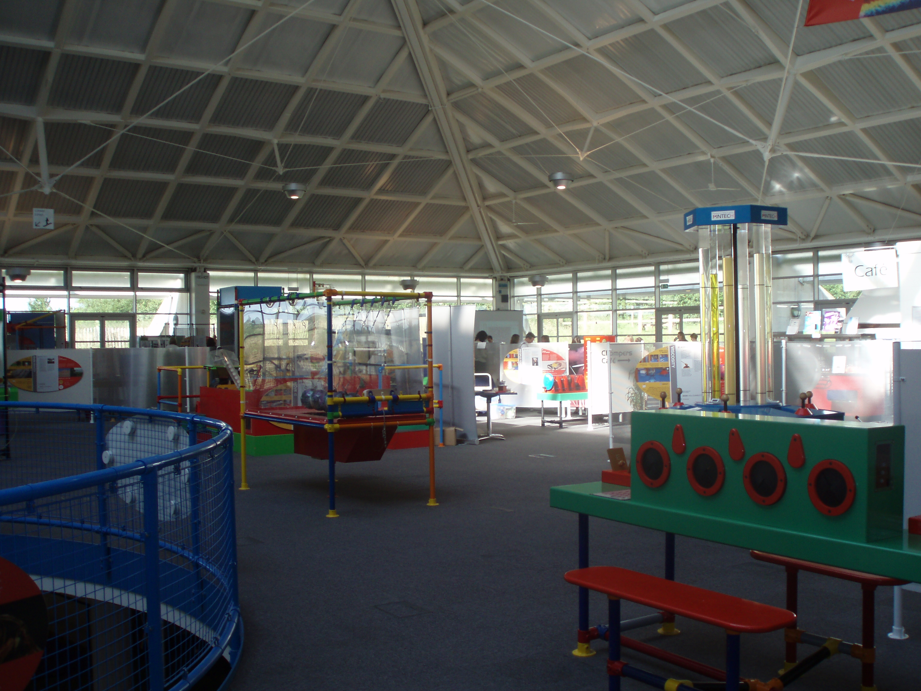 Photo tyaken by M.Eyre 26th June 2007